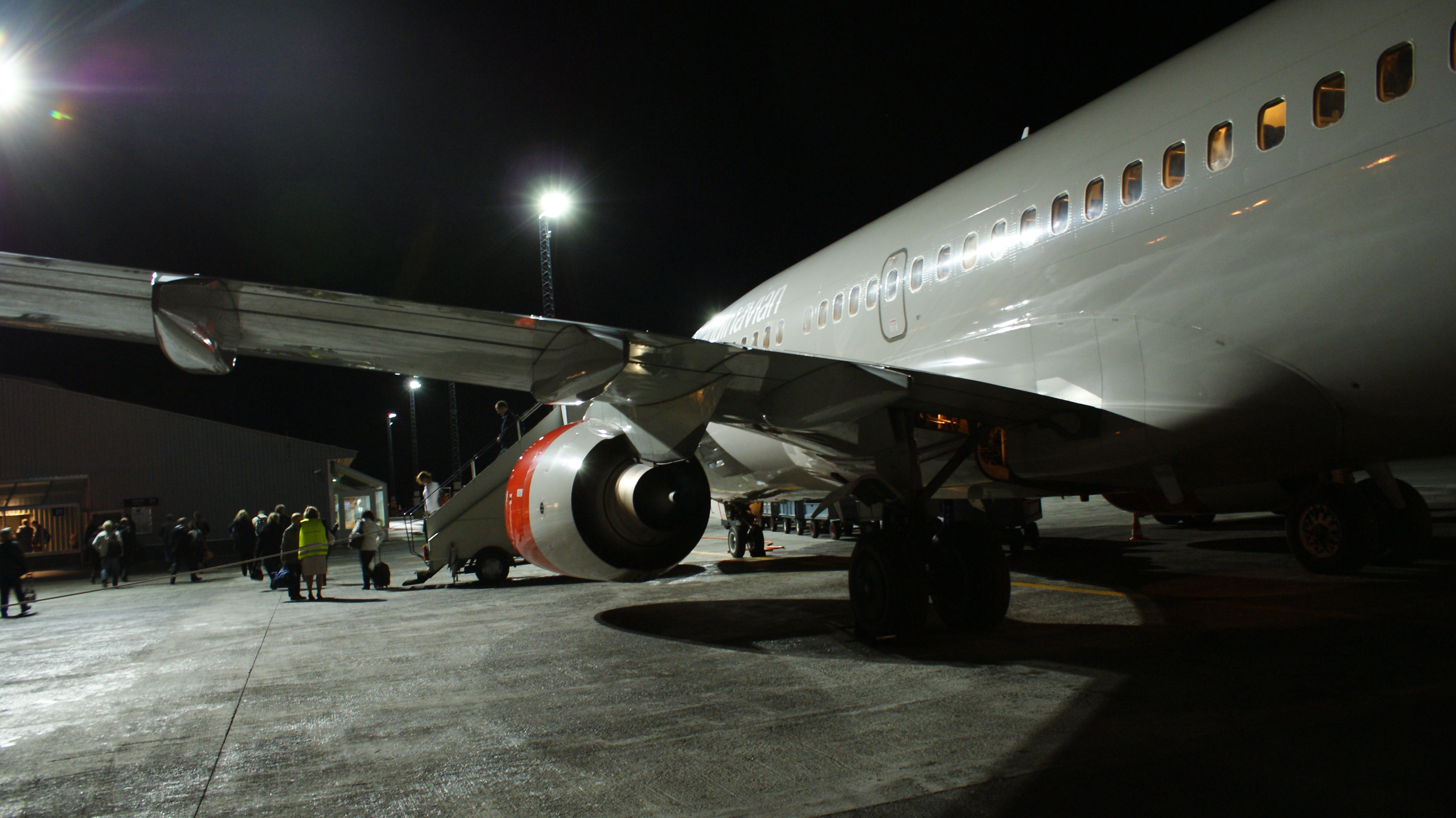 SAS Boeing 737-700 after landing in Kirkenes Airport, Finnmark, Norway